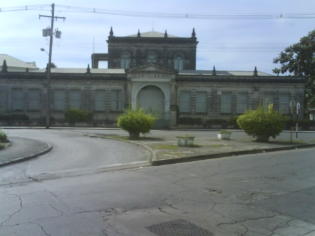 The National Library Service of Barbados main branch at Coleridge Street, Bridgetown, St. Michael. (Currently vacant pending a complete building refurbishment.)